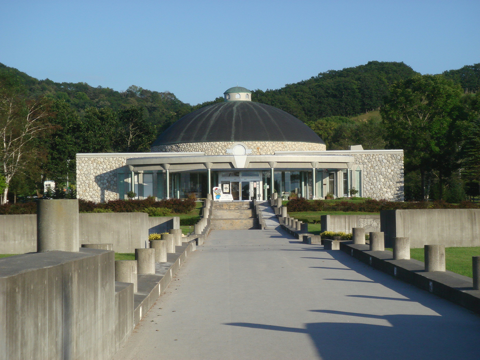 Churui Palaeoloxodon Naumanni Hall at Michinoeki (Roadside Station) Churui in Makubetsu Town, Hokkaido, Japan